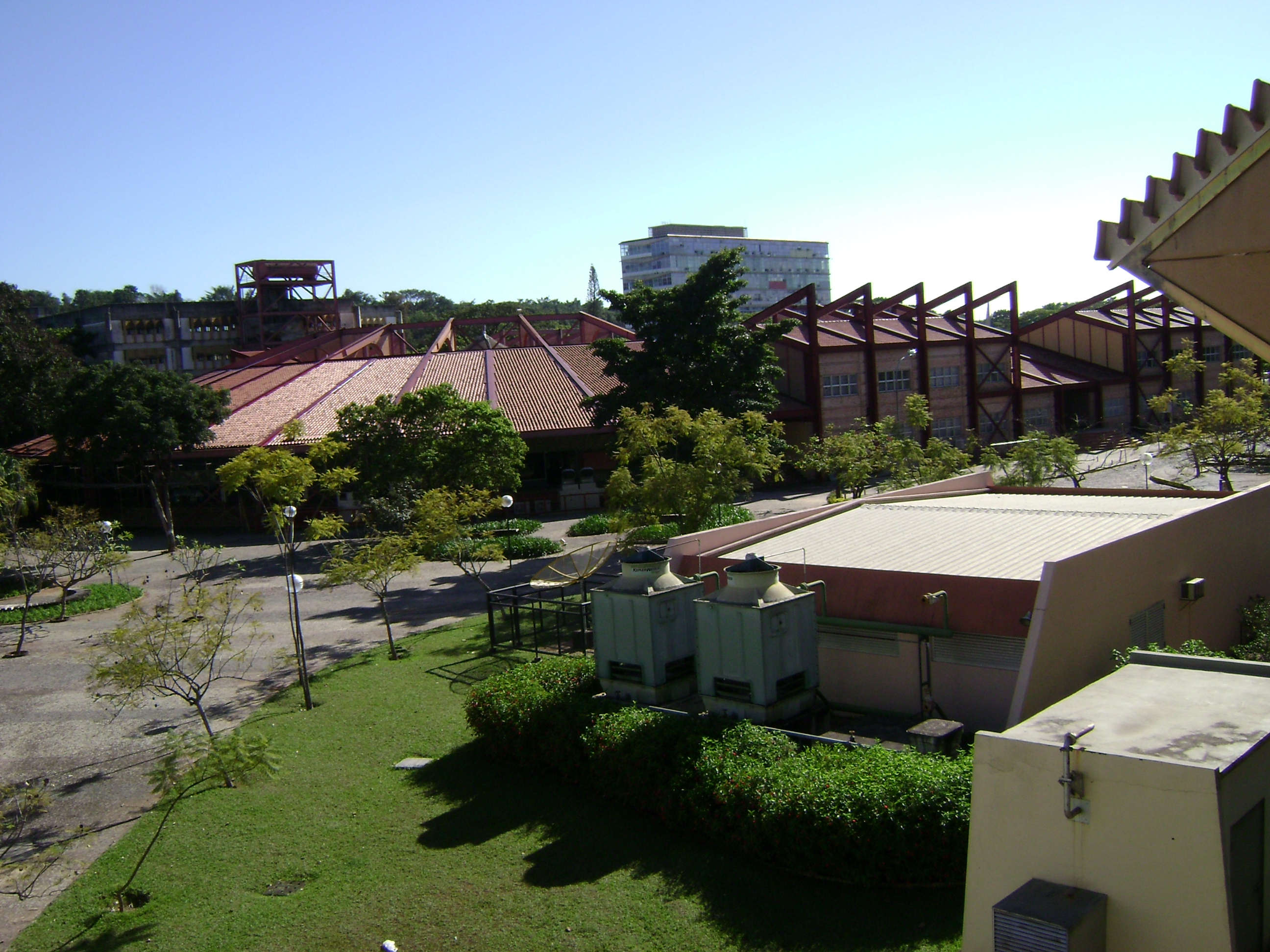 Praça central da UFMG vista de dentro do ICEX (Instituto de Ciências Exatas).